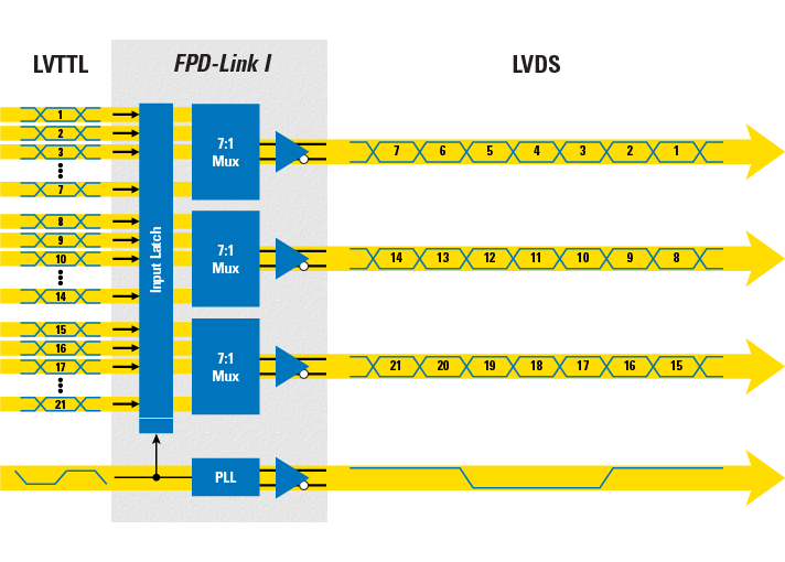 FPD Link I serializer example showig 7:1 data serialization and parallel clock.